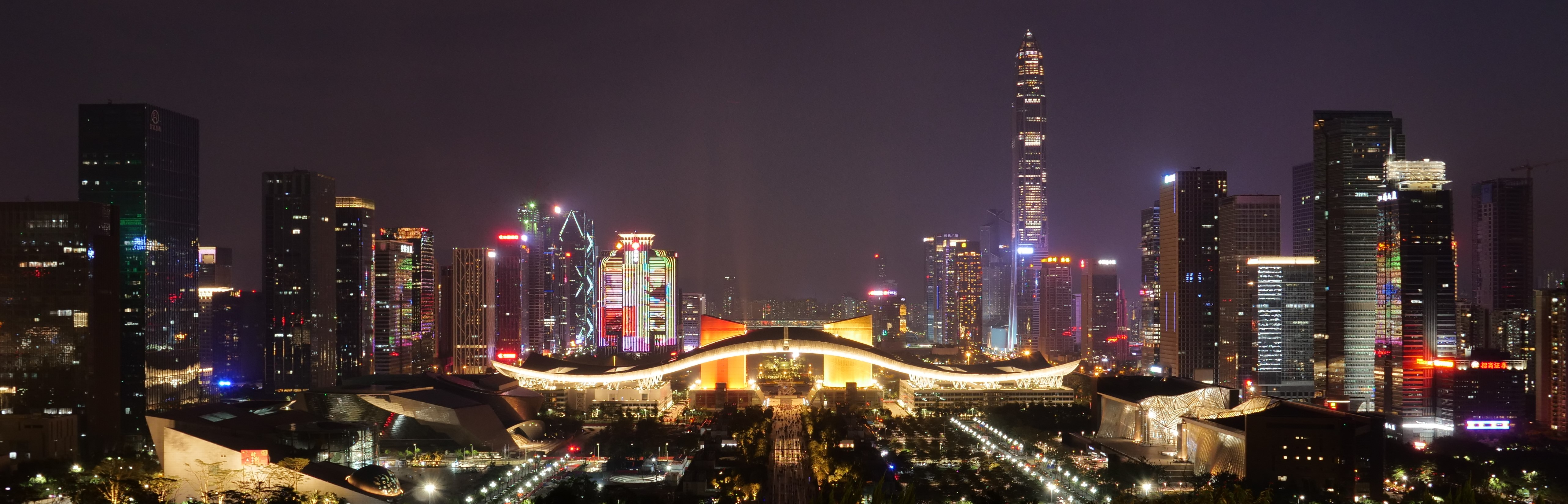 This a cropped of "Civic Center, Shenzhen Lianhuashan Park (2018.9) Night" by sparktour already previously published on wikicommons